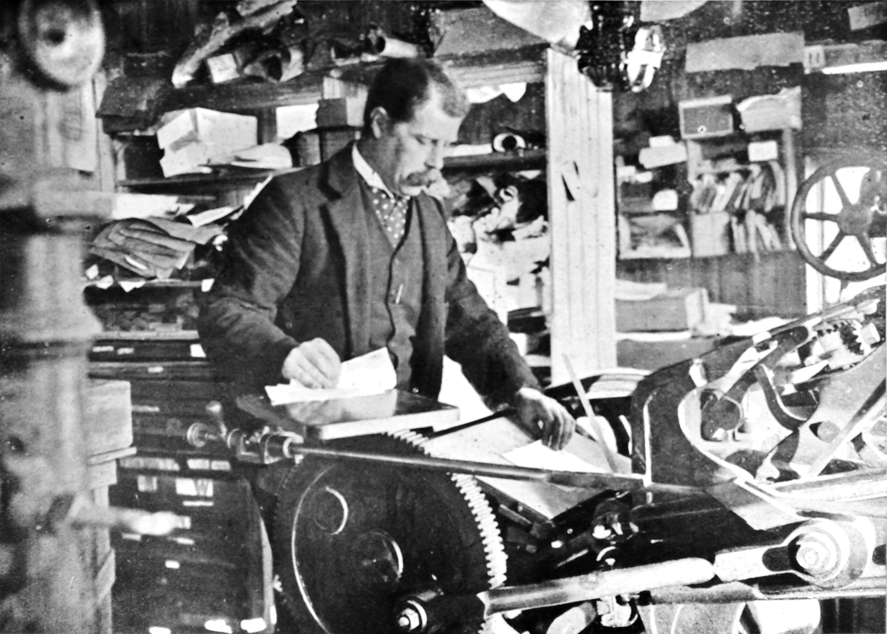 Edward Dwelly at the printing press Gàidhlig: Eideard Dwelly air a' chlò-bhualadair